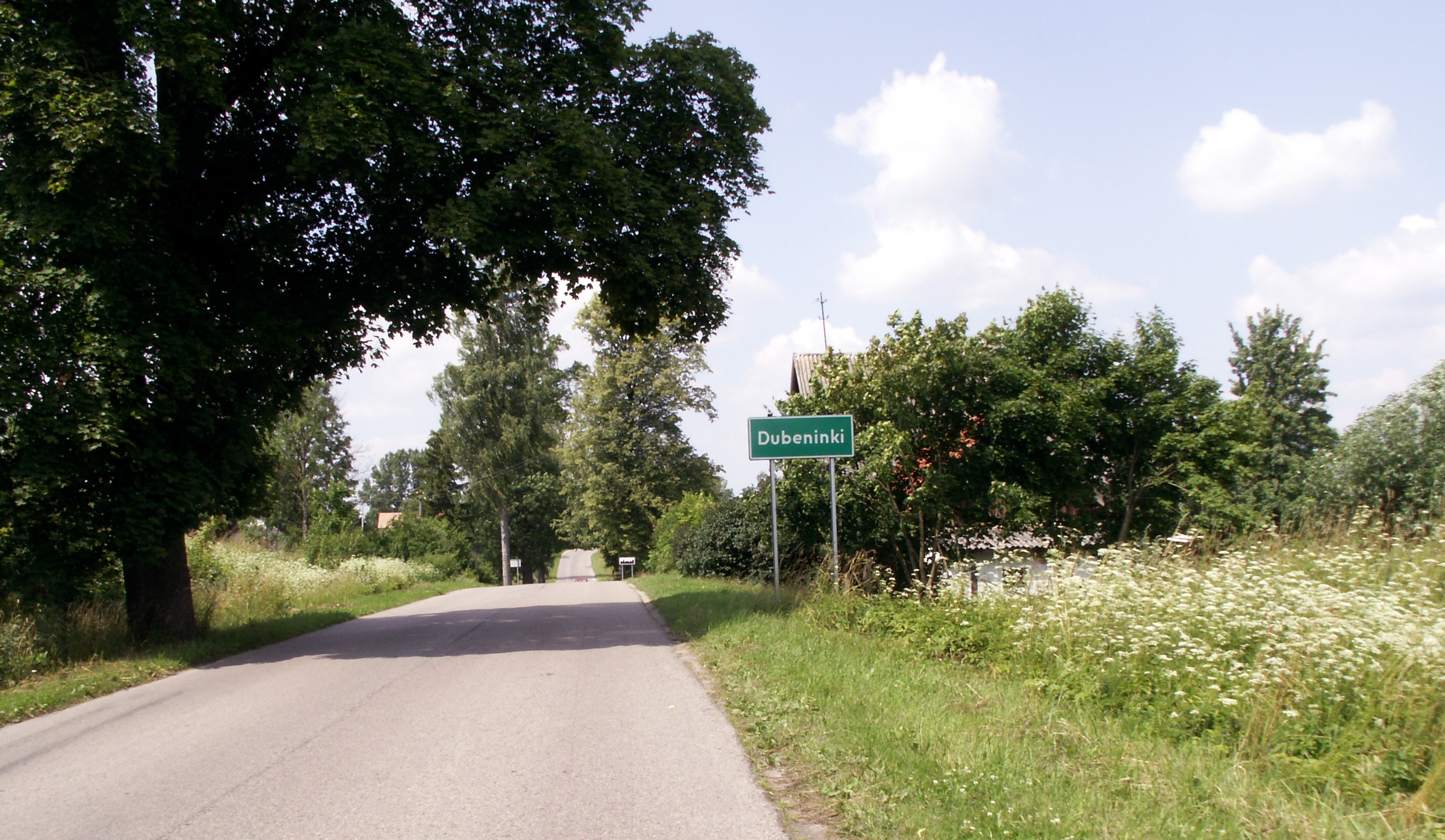 Dubeninki